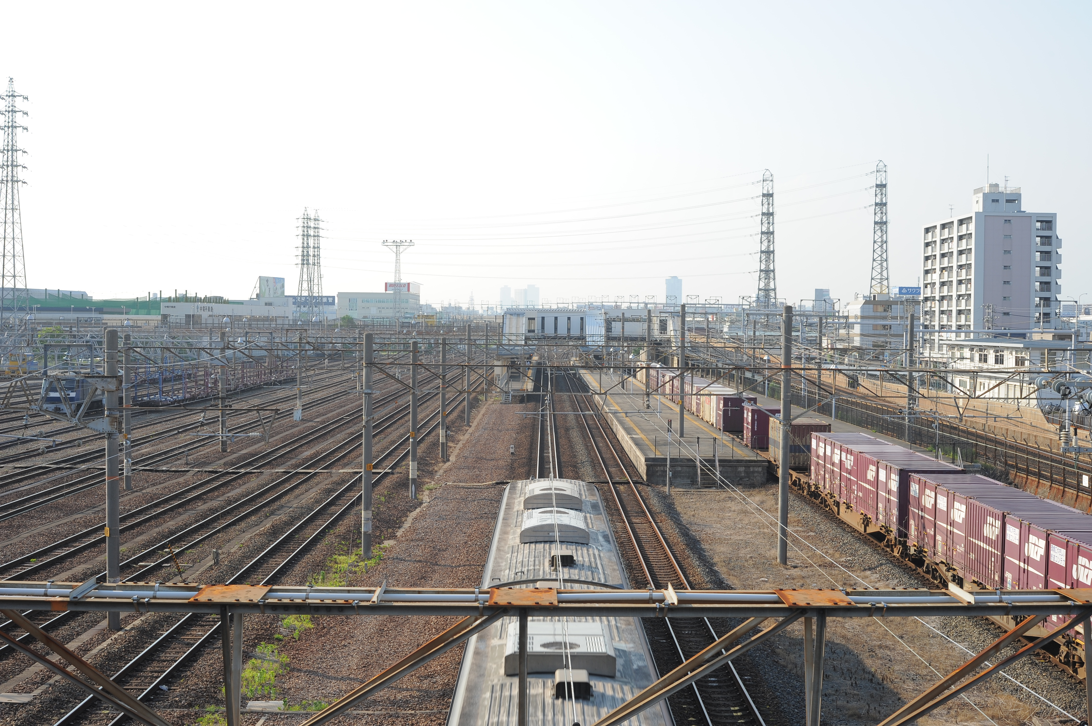 JR Central Kasadera sta., Minami-ku, Nagoya, Aichi